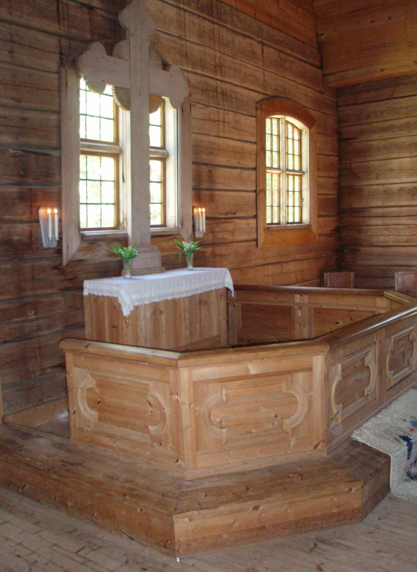 Interior of the Pihlajavesi Wilderness Church in Keuruu (Finland)